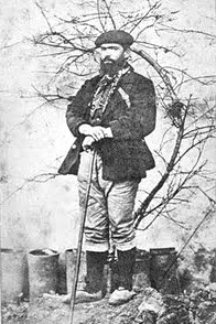 Carlist guerilla leader Manuel Santa Cruz, photographed near Tolosa in early 1873